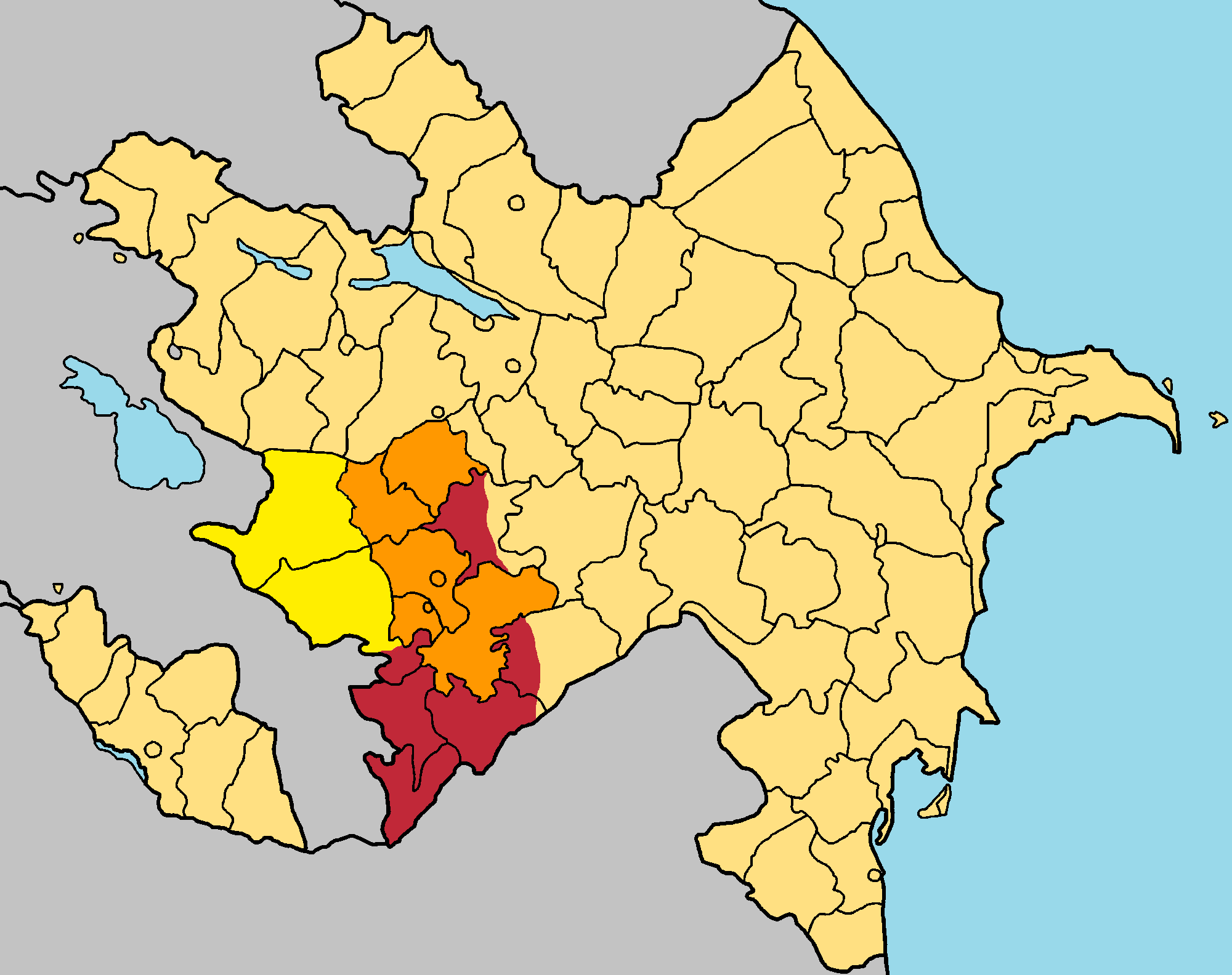 Red: Territories surrounding Nagorno-Karabakh to Azerbaijani control; Yellow: a corridor linking Armenia to Nagorno-Karabakh; Orange: Self-governing Nagorno-Karabakh.